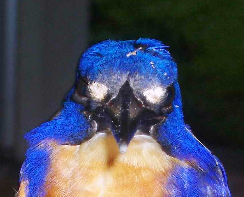 I took this photo at my home near Cooktown, Australia